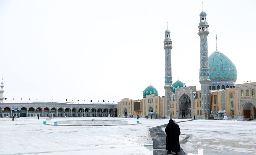 Snowy day of Qom, Jamkaran Mosque - 28 January 2018. main album